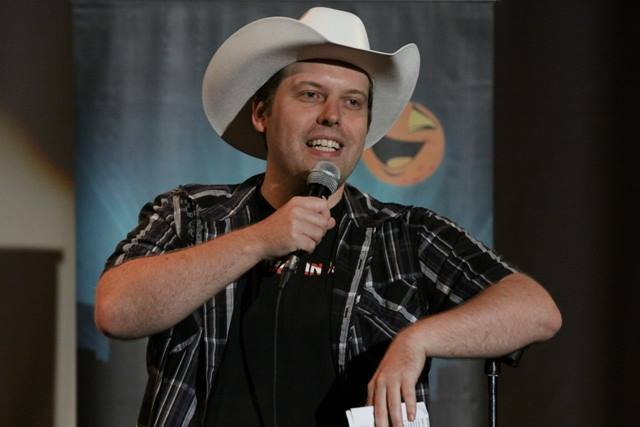 Ron Sparks performing at the 2013 YYComedy Festival in Calgary. Photograph taken in Calgary, Alberta, Canada in September, 2013.